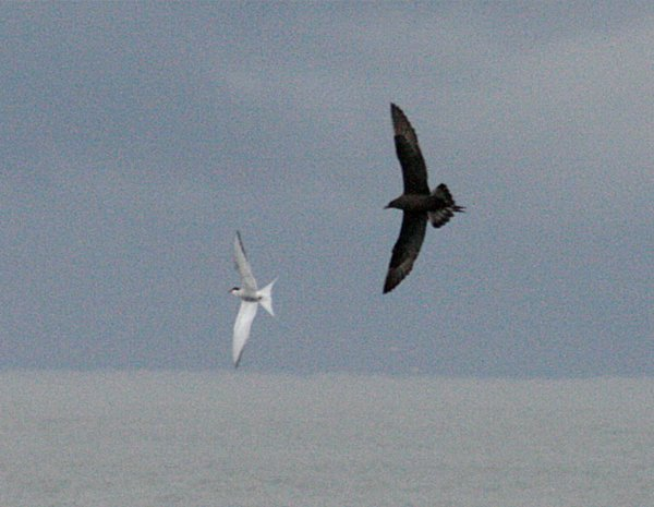 Arctic Skua chasing Arctic Tern near Jökulsárlón, Iceland, August 2008